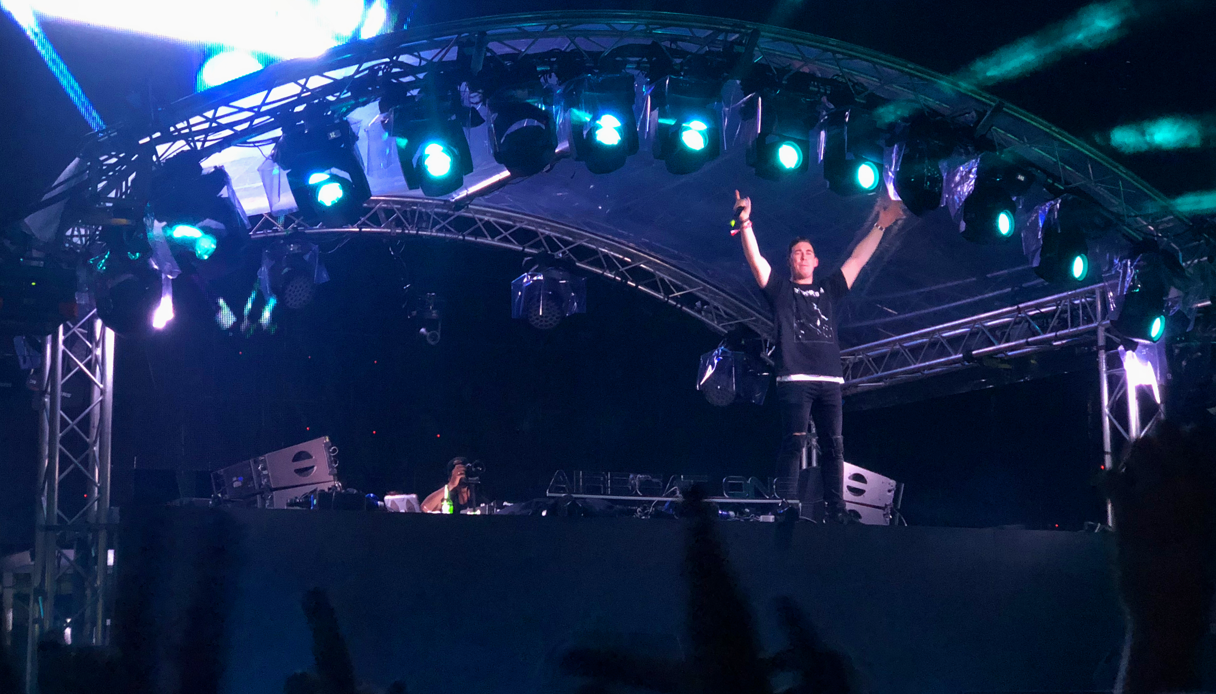 Hardwell playing live at Airbeat One Festival 2018.